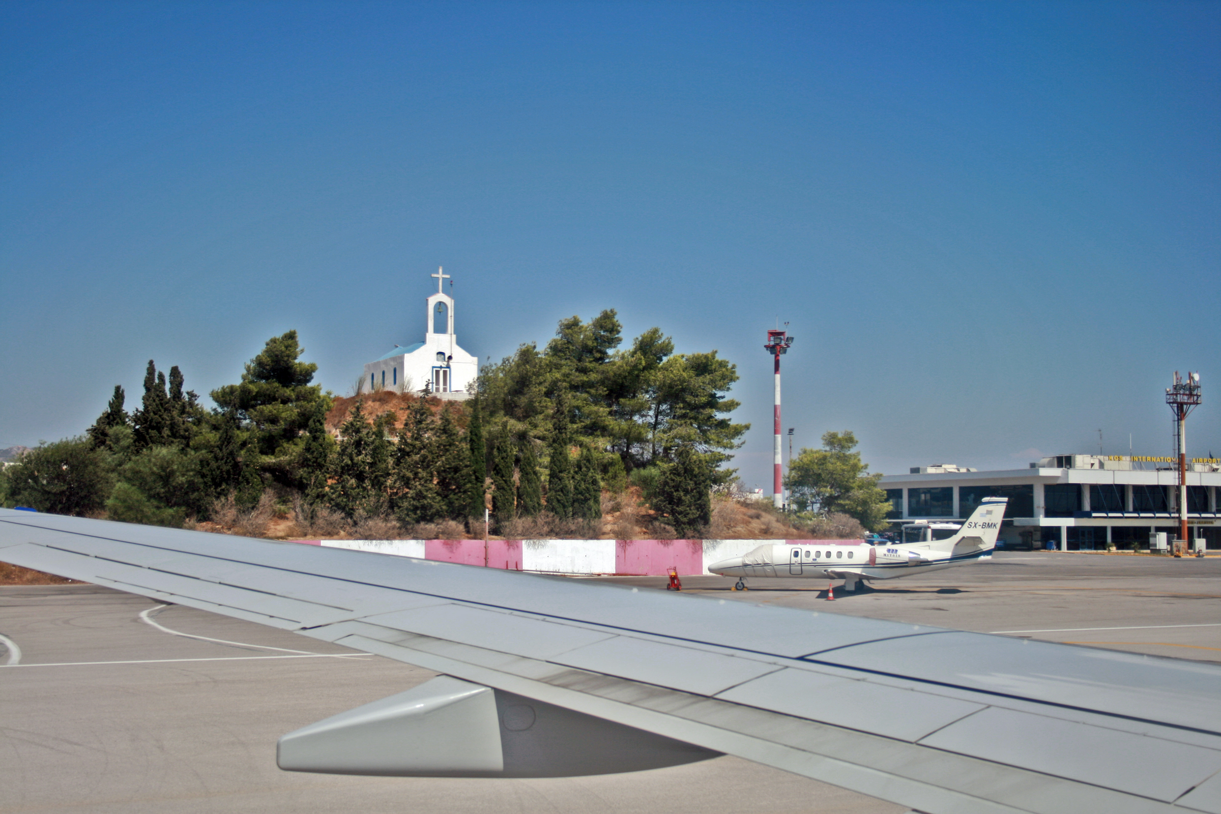 Image from airplain afrer landing in airport near Antimachia town on Kos island, Greece